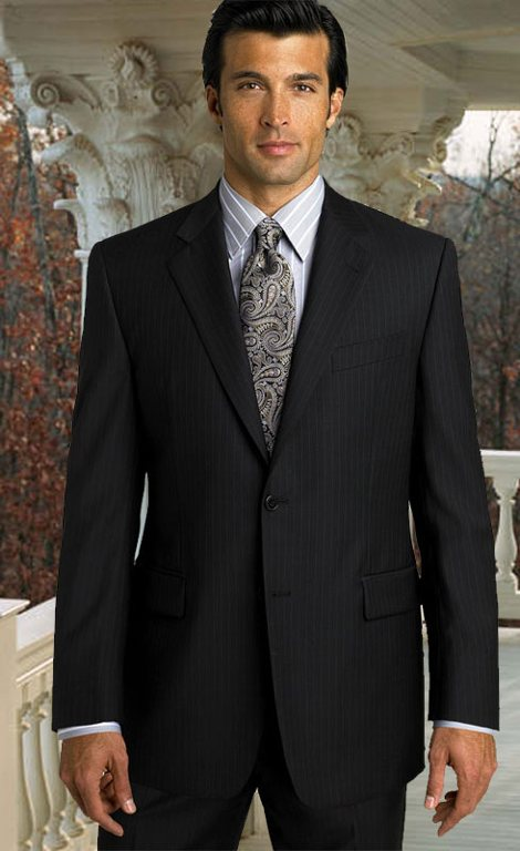 good suit